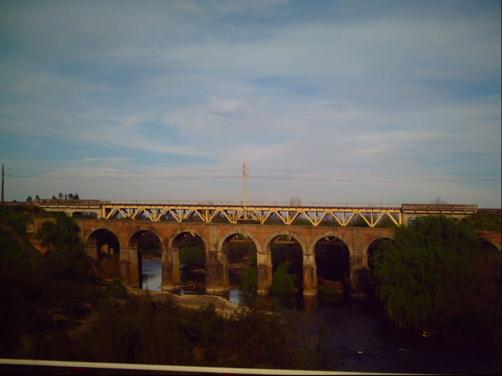 Bridge over Pangue river, in San Rafael, Chile.